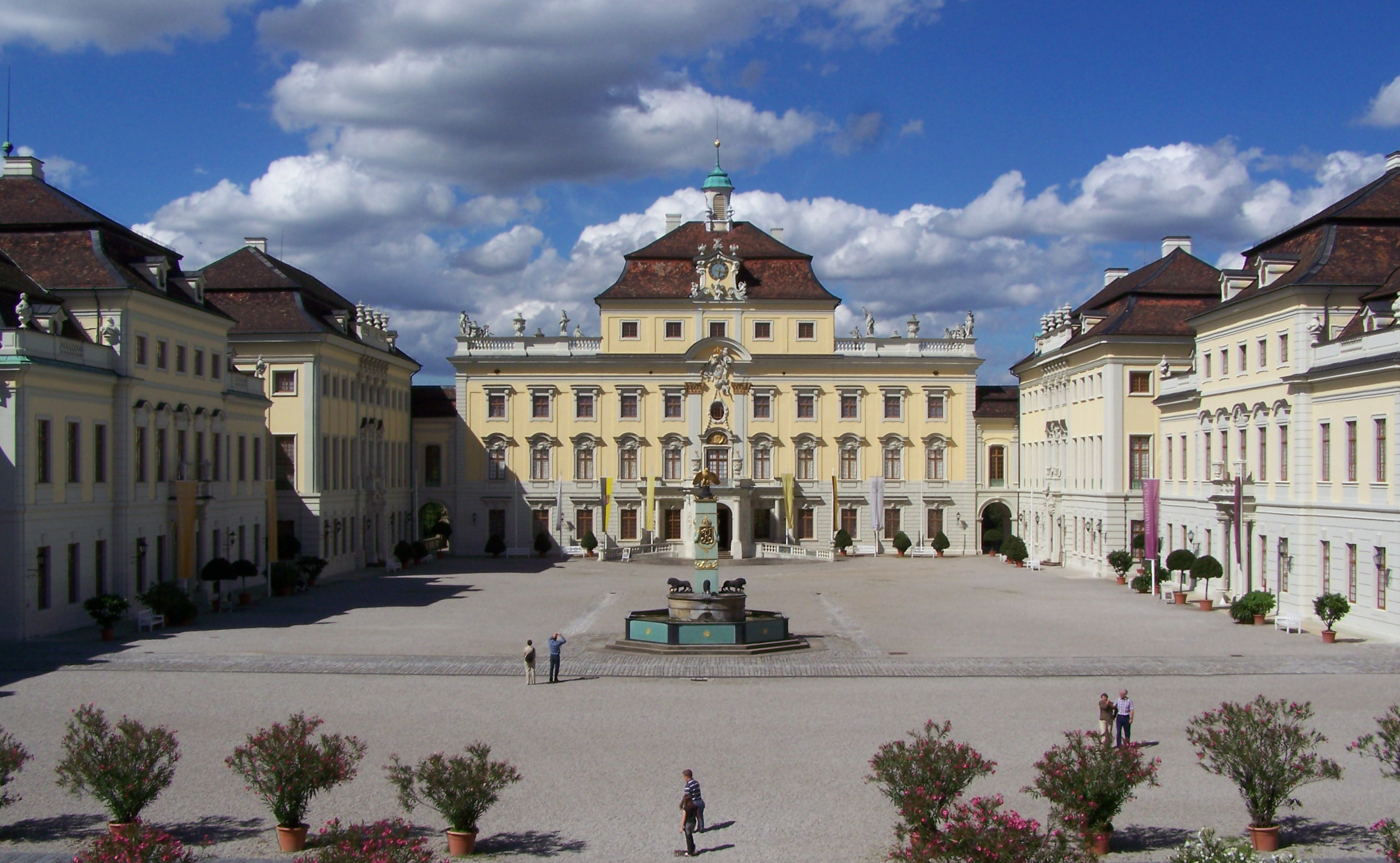 The Ludwigsburg Palace in Baden-Württemberg, Germany